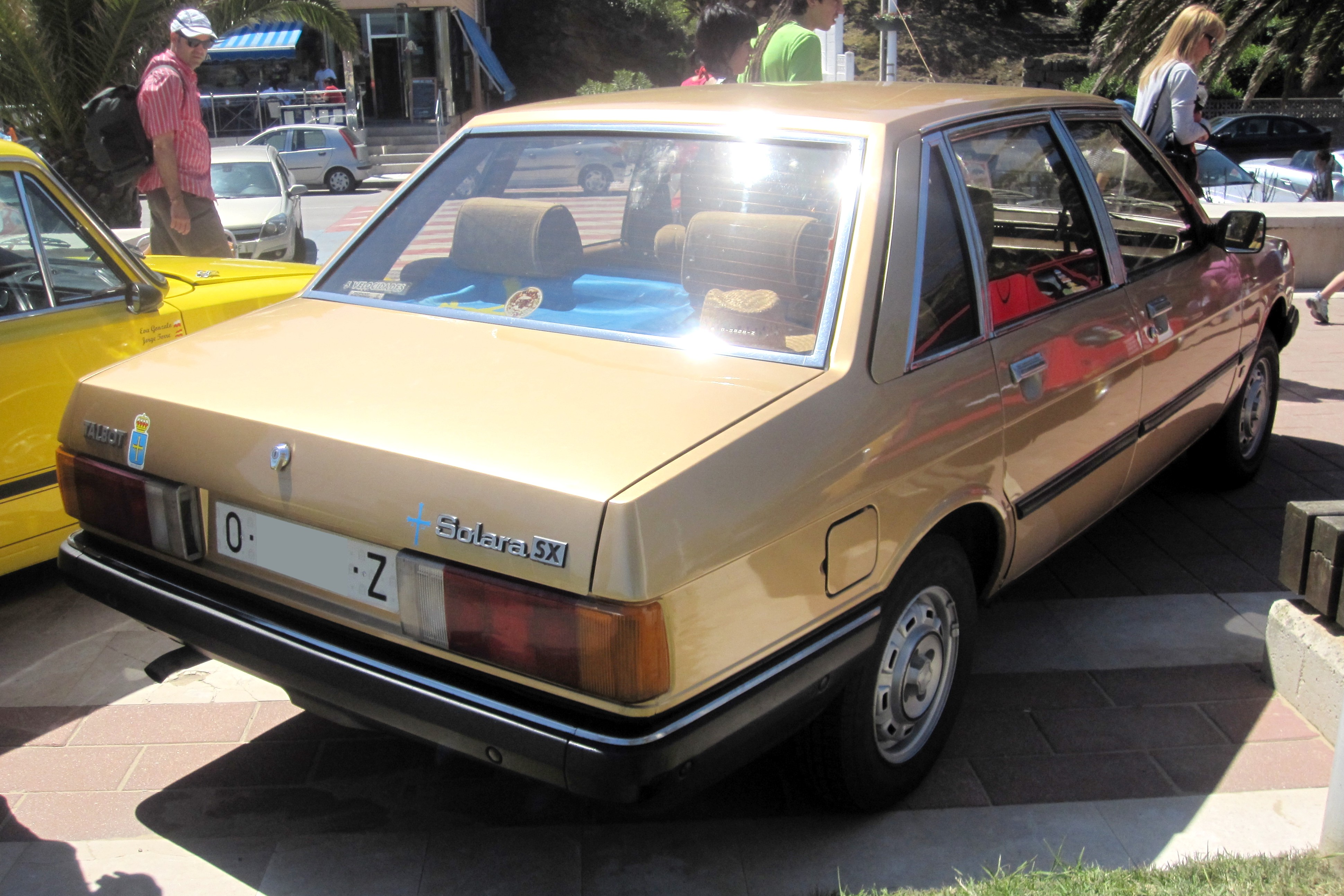 I did like this one. So nice and well cared for! Spotless. 1983 plates from Oviedo (Asturias) but seen in Suances (Cantabria).